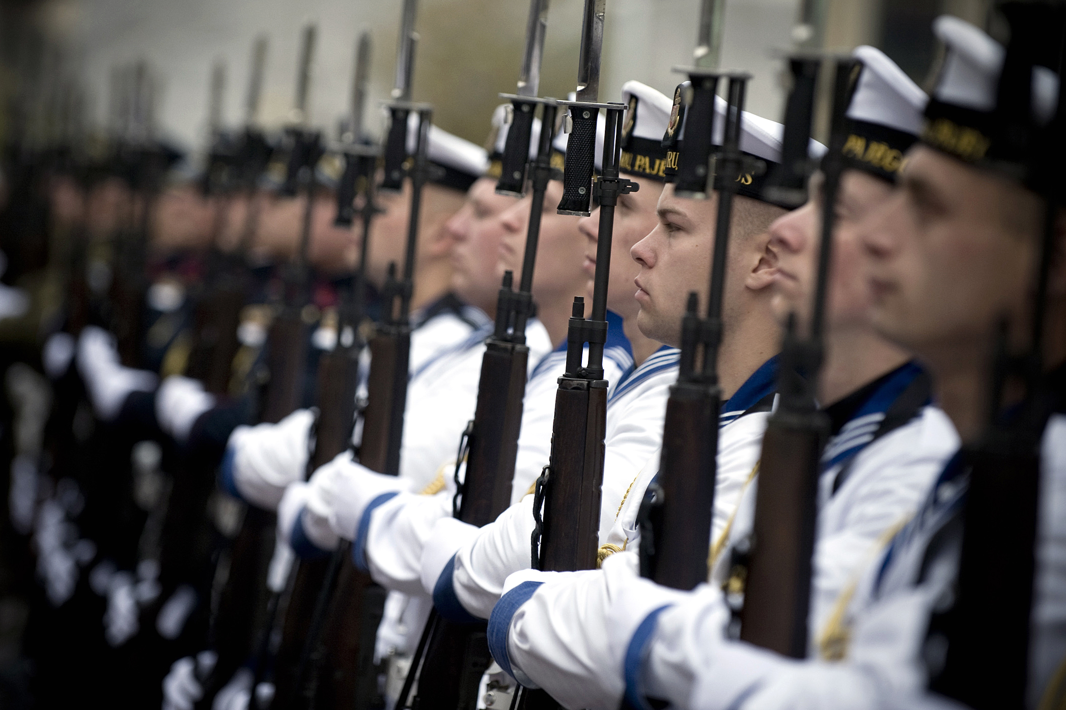 Lithuanian honor guard sailors salute U.S. Navy Adm. Mike Mullen, chairman of the Joint Chiefs of Staff, at a ceremony welcoming Mullen to Vilnius, Lithuania, Oct. 22, 2008.